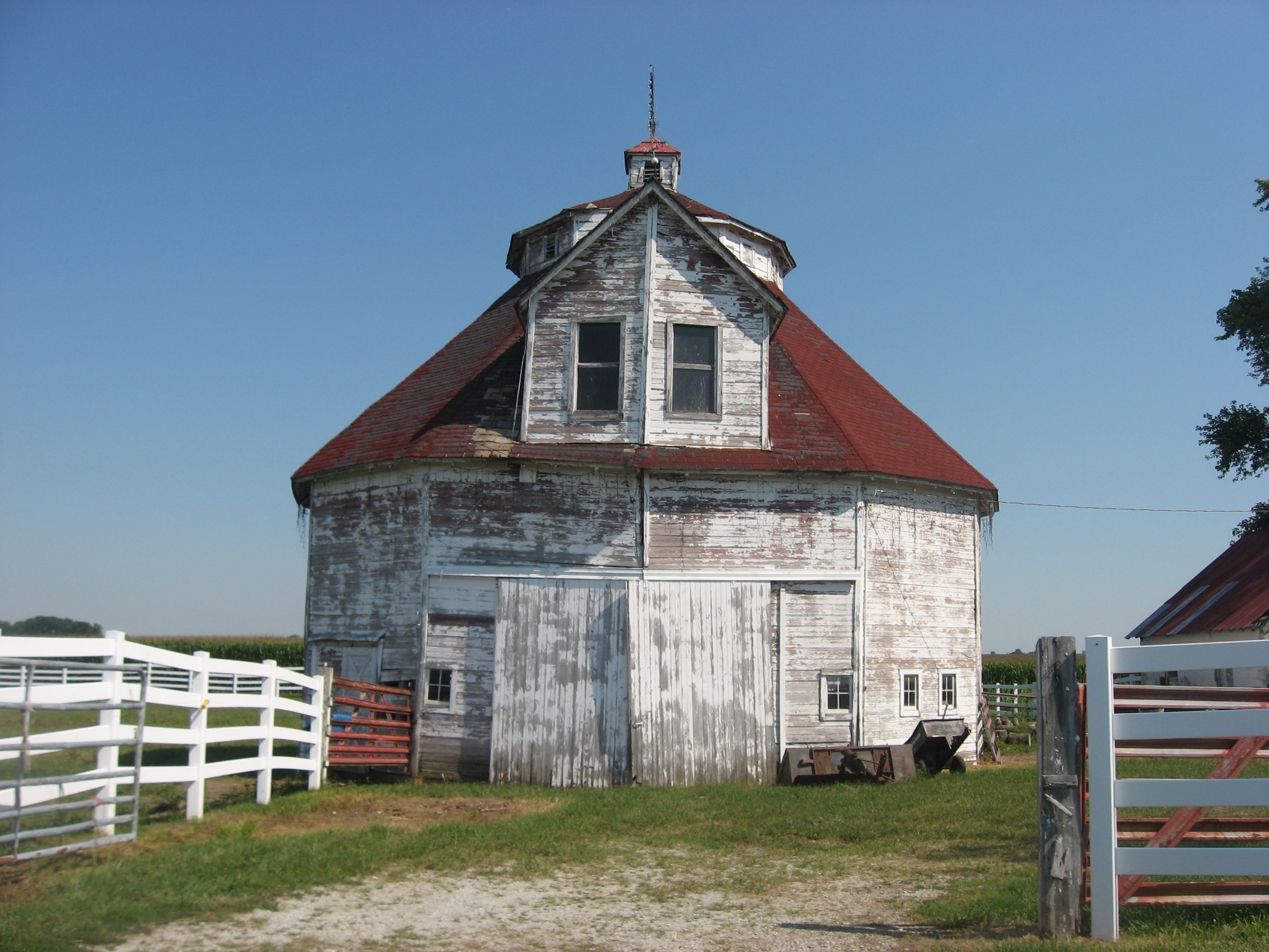 Front of the George Rudicel Polygonal Barn, located just northwest of the junction of 700S and 400E southwest of Waldron in Noble Township, Shelby County, Indiana, United States. Built in 1910, it is listed on the National Register of Historic Places.